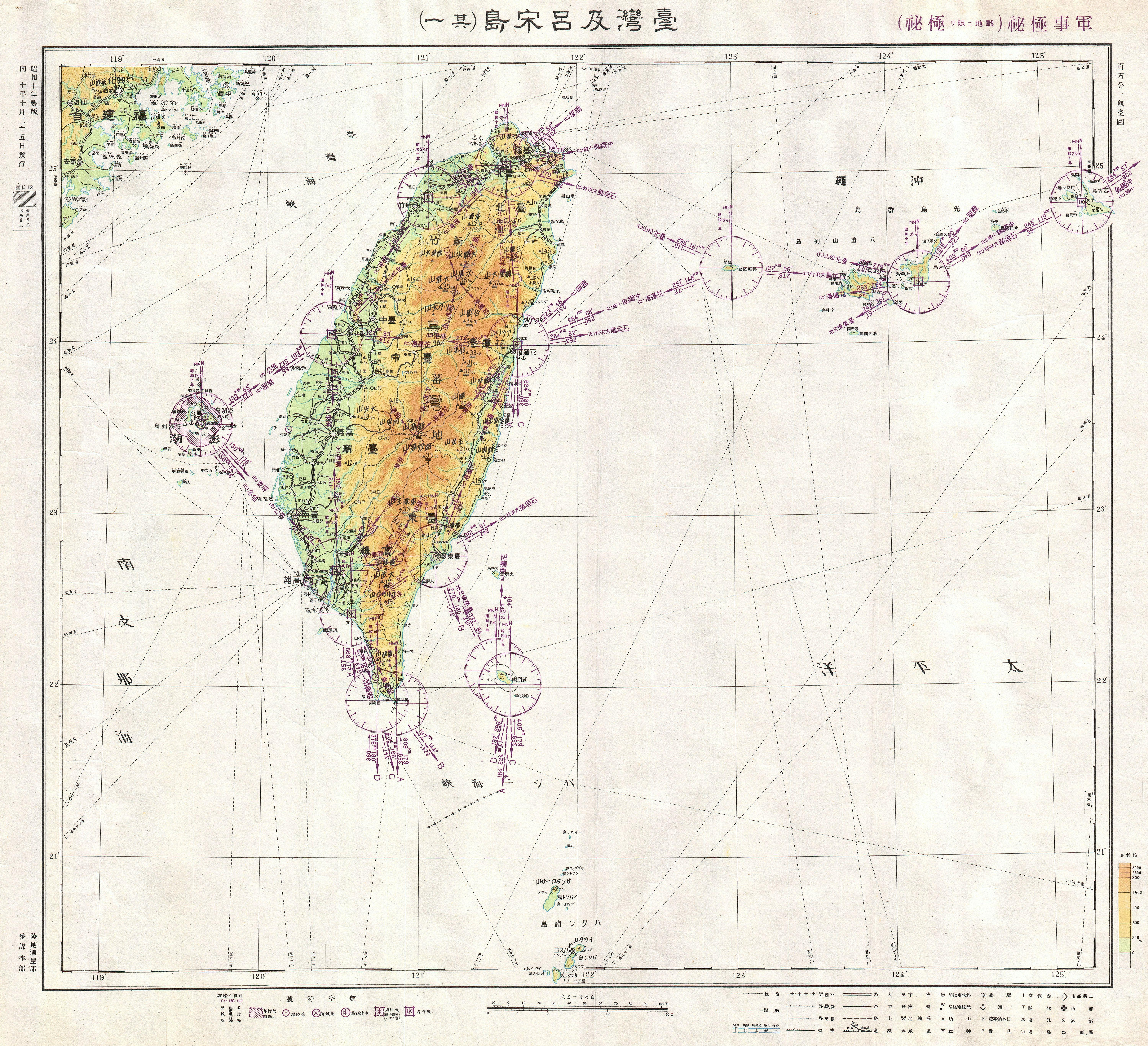 This is a rare World War II era Japanese Aviation map of the island of Formosa or Taiwan. Features the island with superb detail, especially with regard to navigational instructions and topography. Include the nearest Chinese coast as well as nearby islands. All text is in Japanese. This map comes from a collection of material sized by the U. S. Military during World War II. They were sent to the office of General MacArthur in Manila. The owner of this chart headed a unit of Volunteer NISEI translator recruited to translate and de-code documents seized on the Pacific Front.